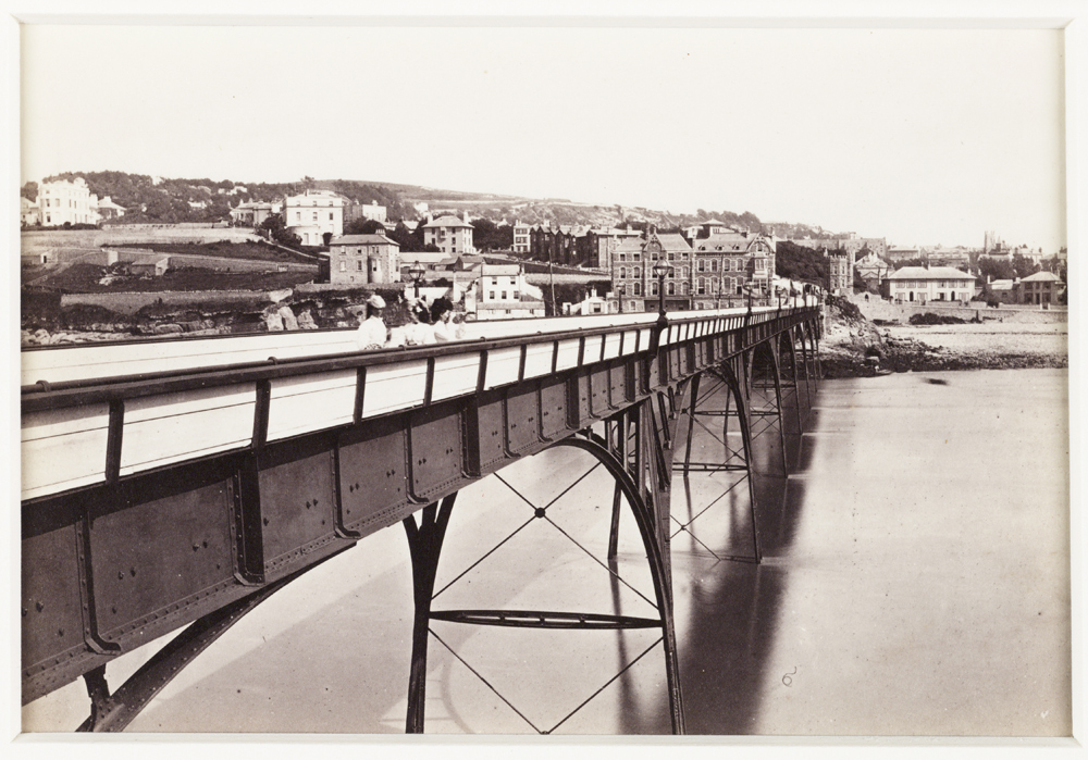 Creator: Francis Bedford (1816 - 1894) Date: c. 1880 Format: Albumen print Collection: National Media Museum Collection Inventory no: 1990-5037_B1_1052 A photographic view of Clevedon from the end of the Pier. Clevedon is situated on the the Bristol Channel Coast. The Pier was constructed using surplus rails from Isambard Kingdom Brunel's (1806 - 1859) South Wales railway.